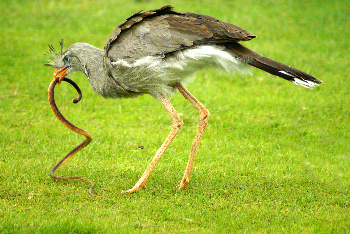 Red-legged Seriema at Whipsnade Zoo, England.